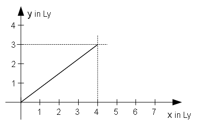 Path of light signal in S